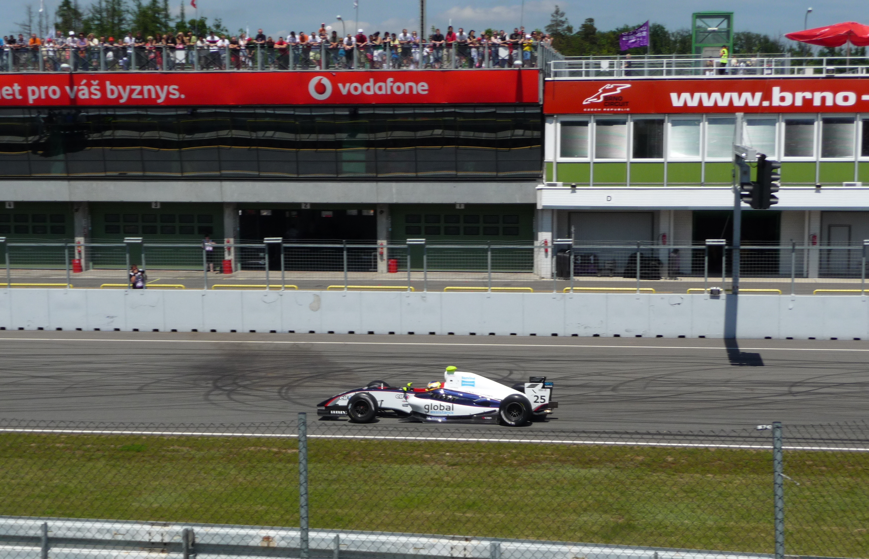 Esteban Guerrieri, Formula Renault 3.5 Series, 2nd race, 2010 Brno World Series by Renault -10-5-3-2◄►+2+3+5+10